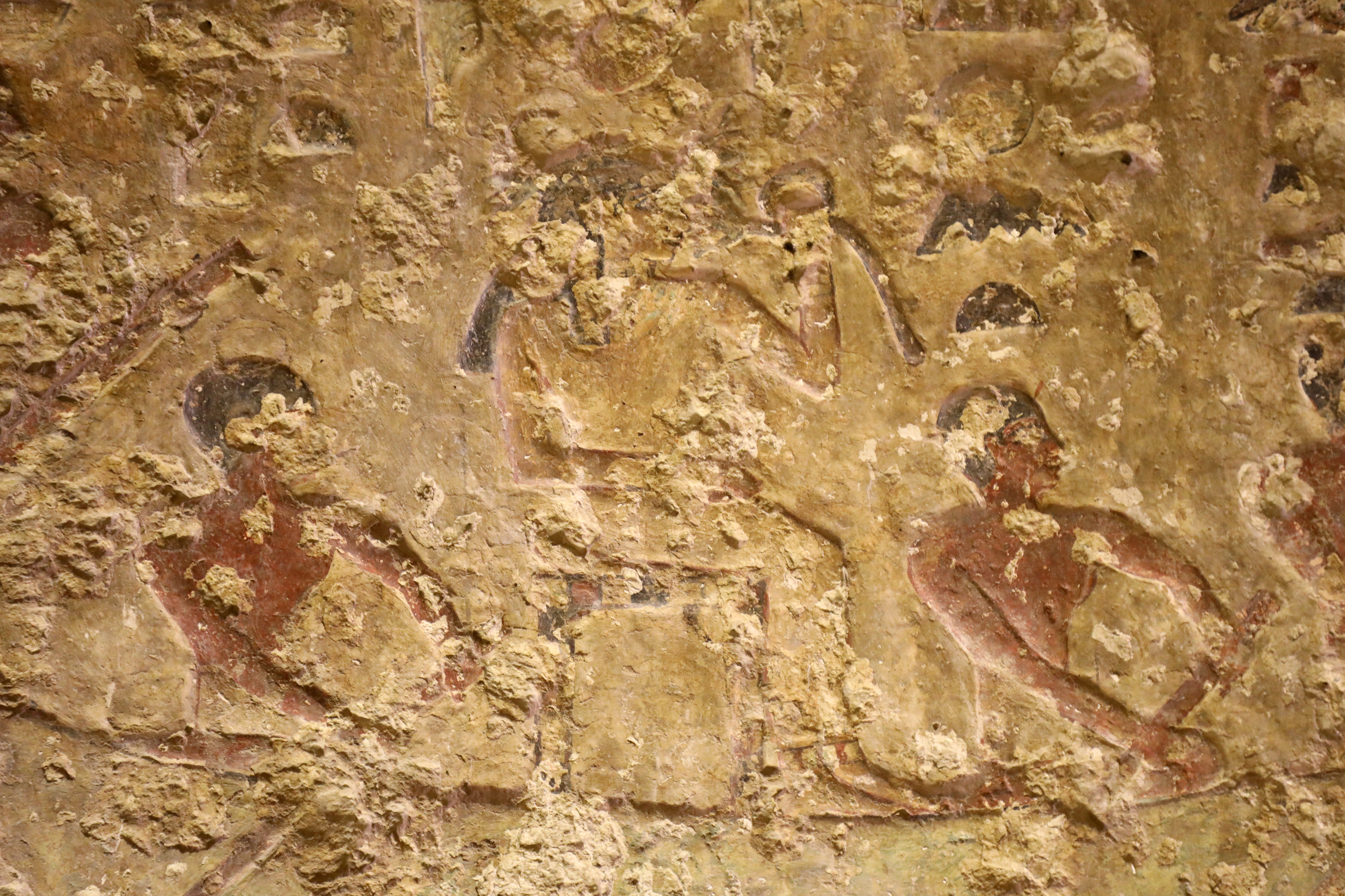 Wife Jufi with lotus flower on a papyrus boat, tomb of Kai-khent (A2), necropolis of al-Hammamiya, Egypt